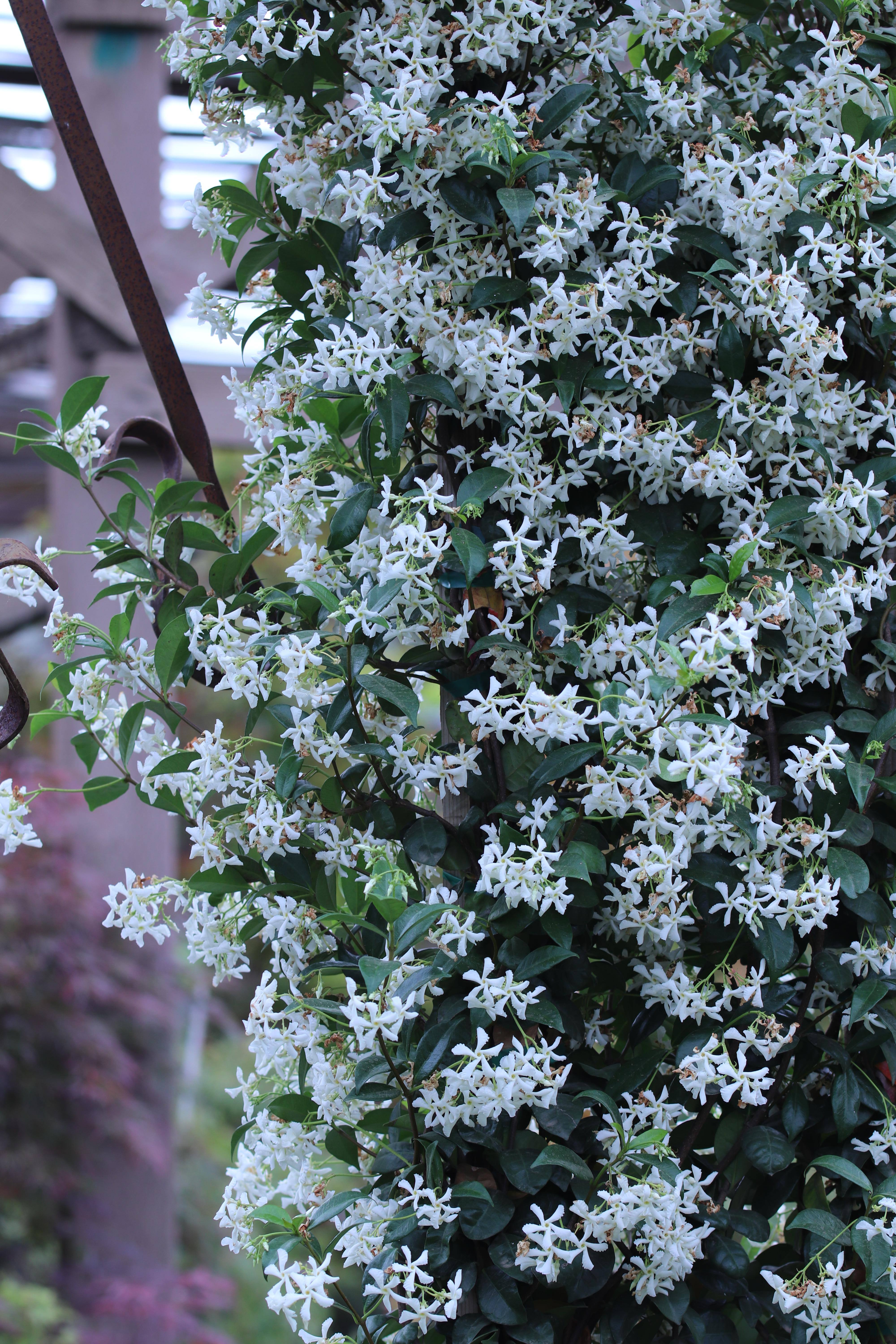 Star jasmine (Trachelospermum jasminoides) on May 31, 2018 in Los Altos, California.